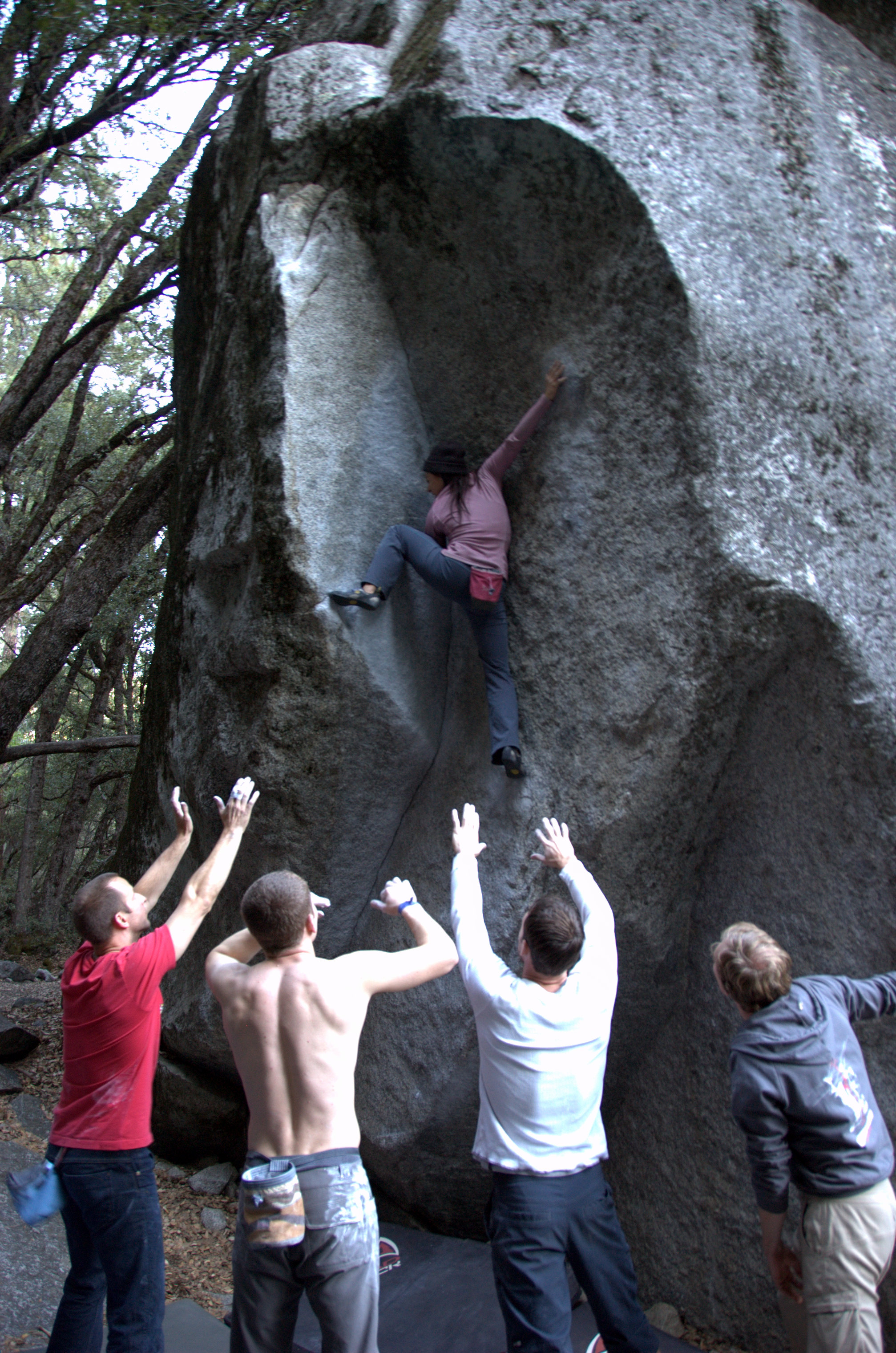 king cobra, v8 - full extension - a climber on the King Cobra bouldering route in Yosemite